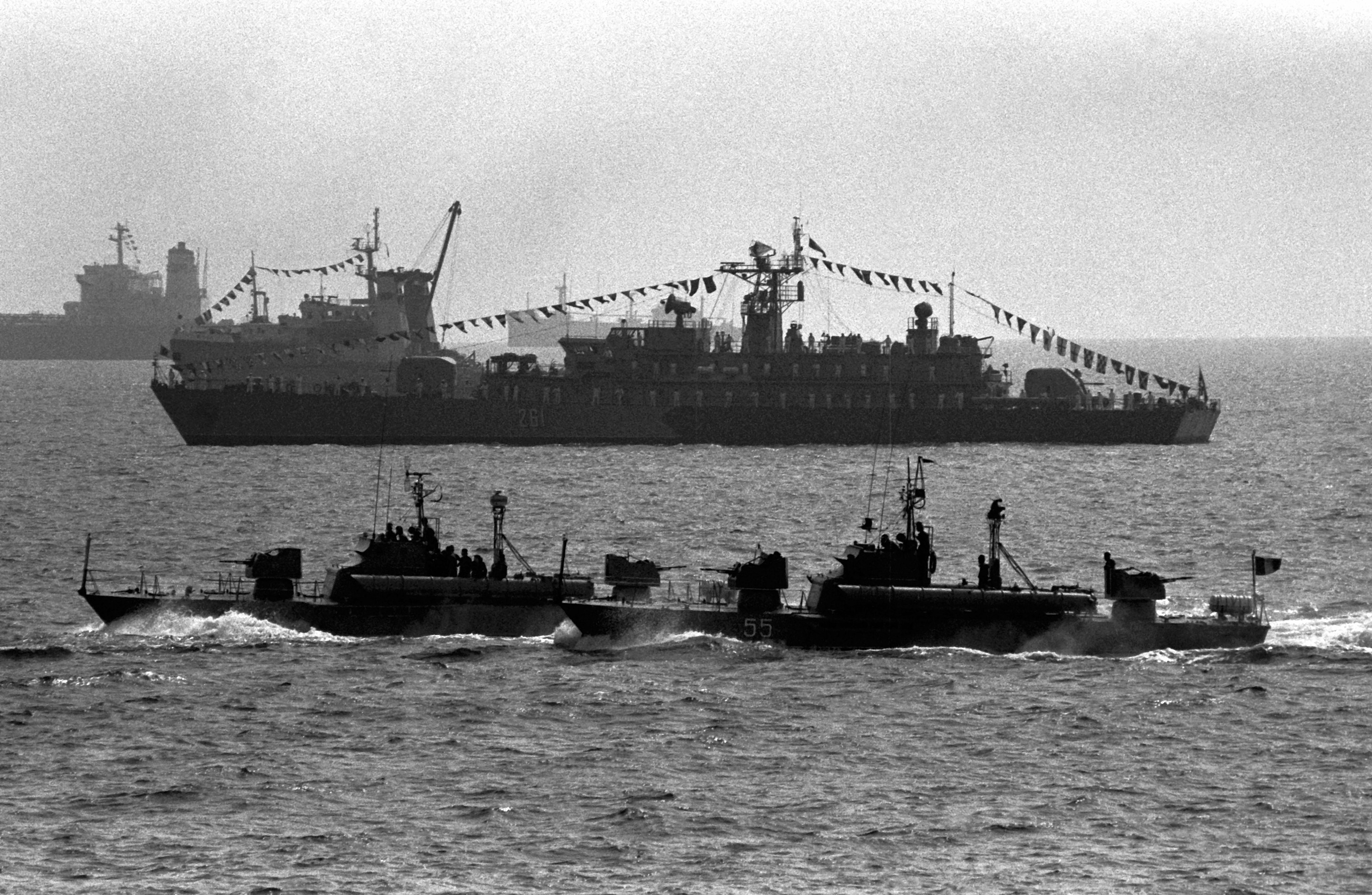 A port view of two Romanian navy Type 025 class torpedo boat (NATO code - Huchuan class hydrofoil fast attack torpedo boats). Project 1048 (NATO code - Tetal class) frigate Viceamiral Vasile Scodrea is in the background.